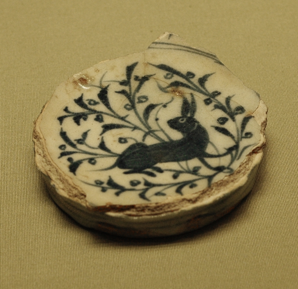 Cup with hare, fragment.